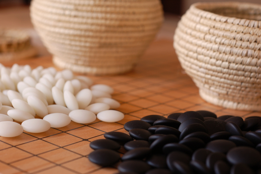 Double convex yunzi stones and woven baskets for holding them placed on a Go board.